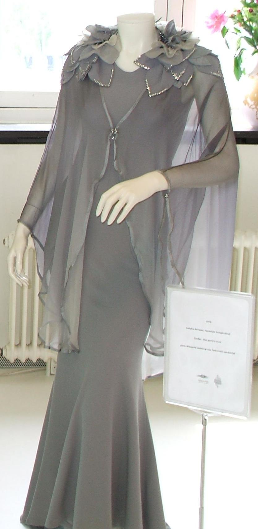 Sandra Reemer's 1976 Eurovision Song Contest dress at the "May we have your dress, please?!" exposition for benefit of the Sandra Reemer Foundation